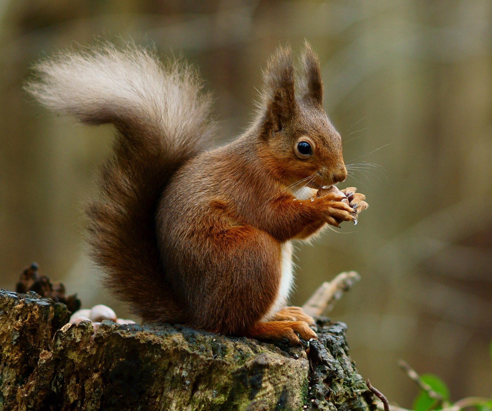 A red squirrel in the forest (Sciurus vulgaris).